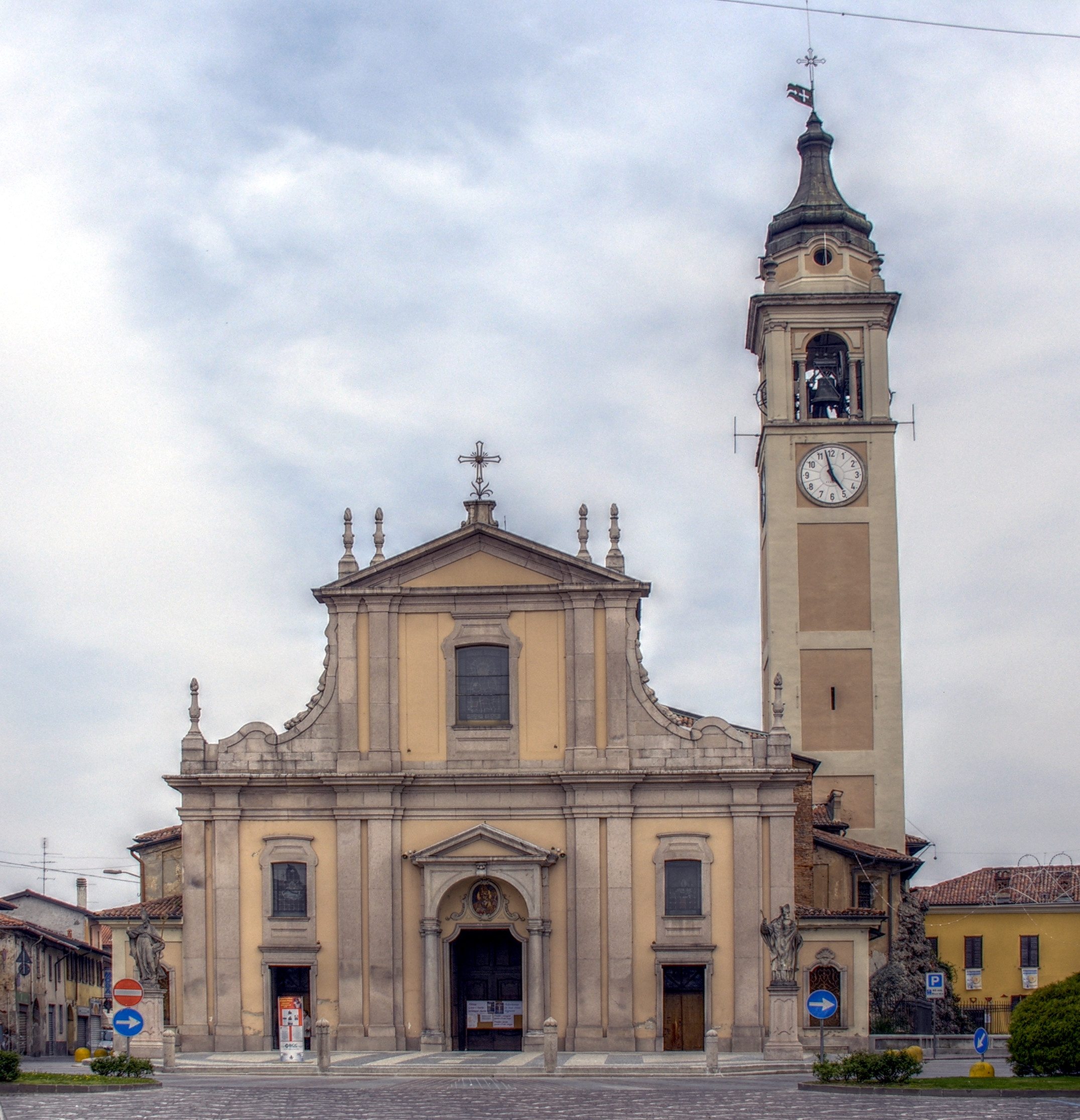 Castano Primo, MI, Italy - San Zenone church - External view